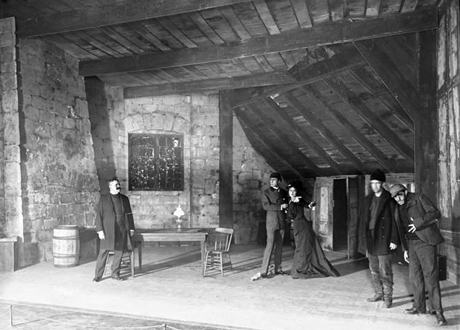 photograph of the Broadway production of Sherlock Holmes, with George Wessells as Professor Moriarty, William Gillette as Sherlock Holmes and Katherine Florence as Alice Faulkner